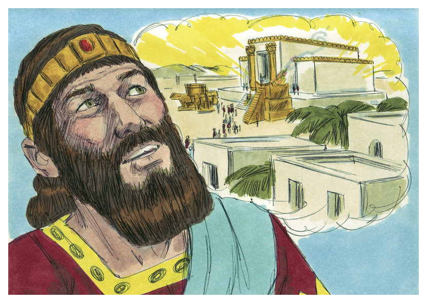 Biblical illustration of First Book of Kings Chapter 9